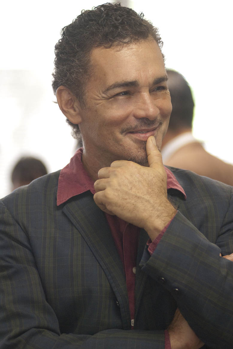 Teofilo Torres